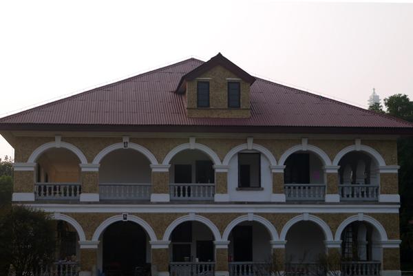 the old customs house